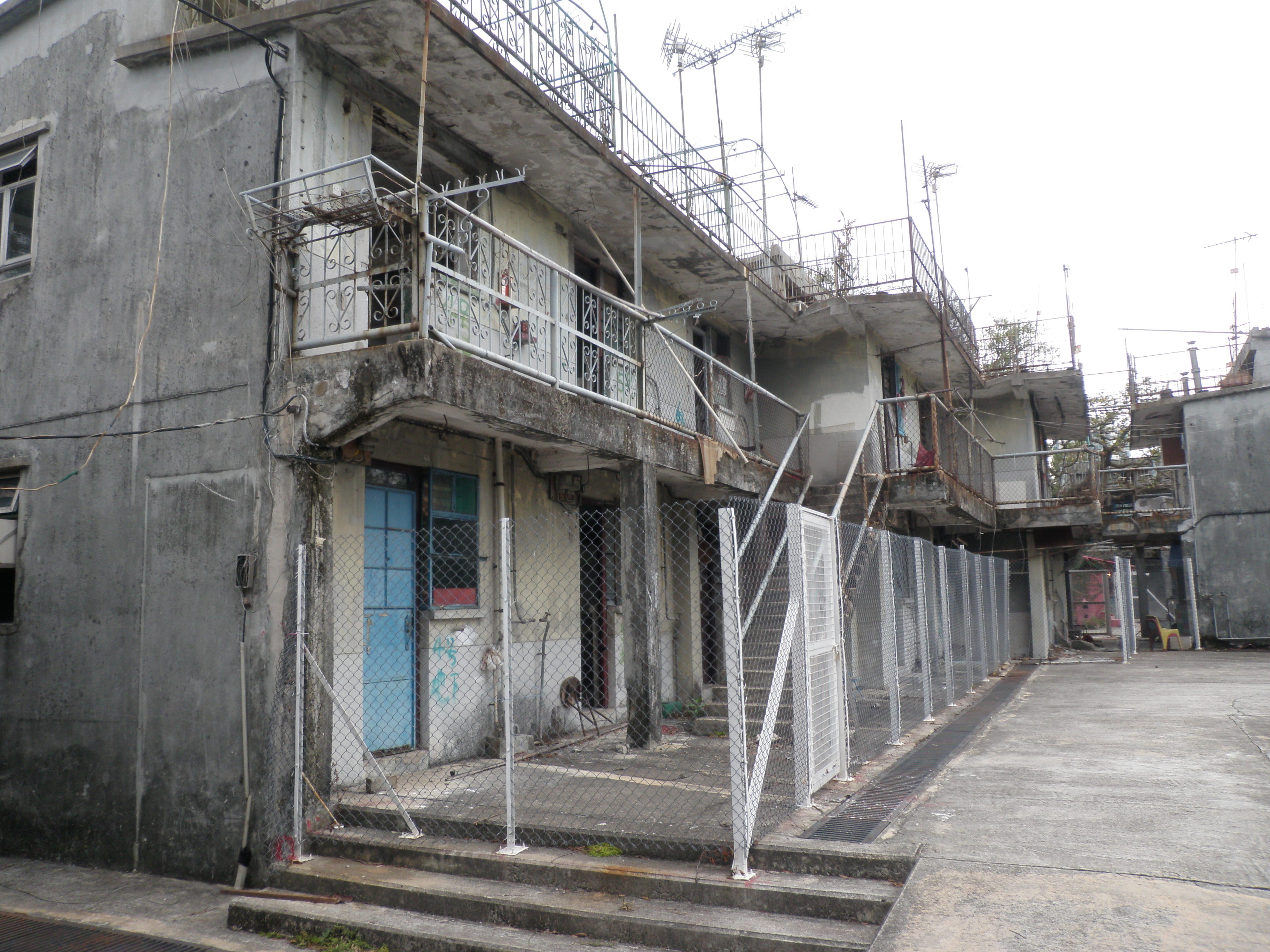 Ma Wan CARE Village 2010